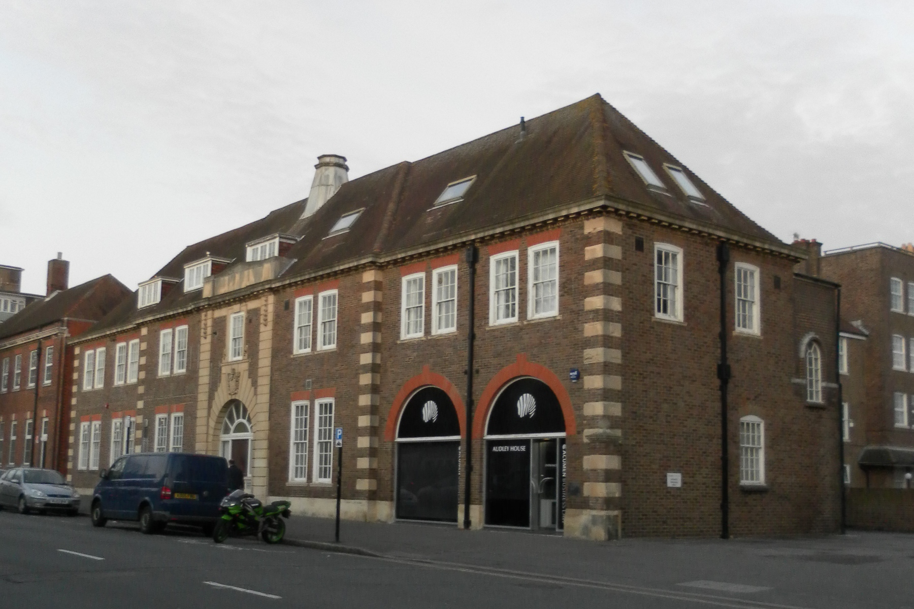 The Old Fire Station, Hove Street, Hove, City of Brighton and Hove, England. Designed by the local architecture firm Clayton & Black in 1926; closed in 1976 and converted into offices and flats between 1978 and 1981.